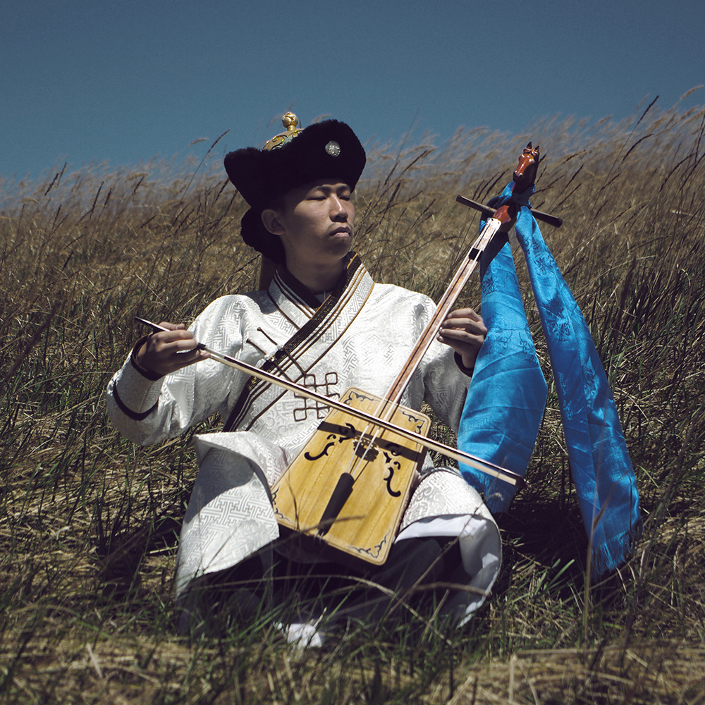 The artist photo of artist and musician Nature Ganganbaigal